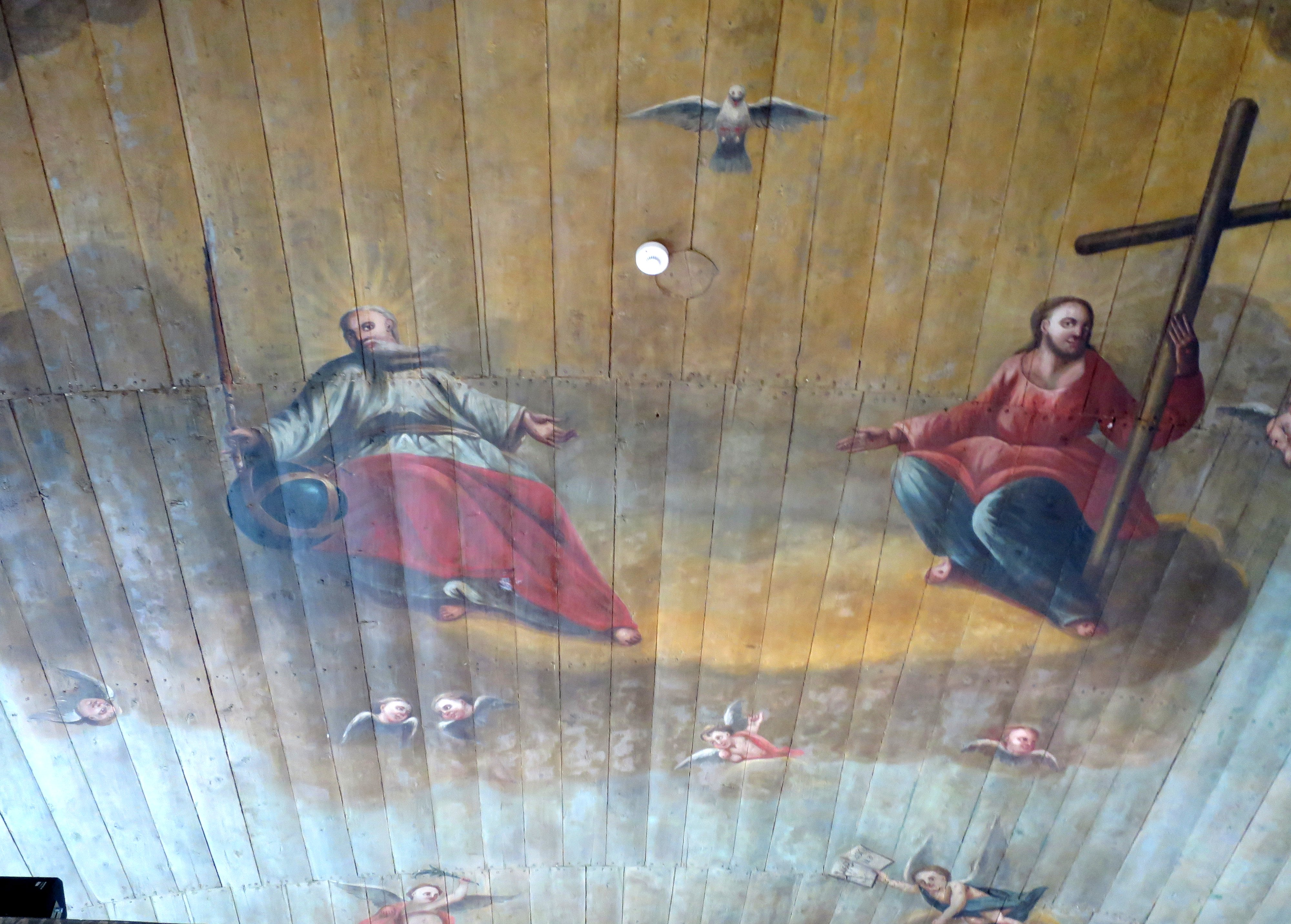 Ceiling mural in Fiskebäckskils Church